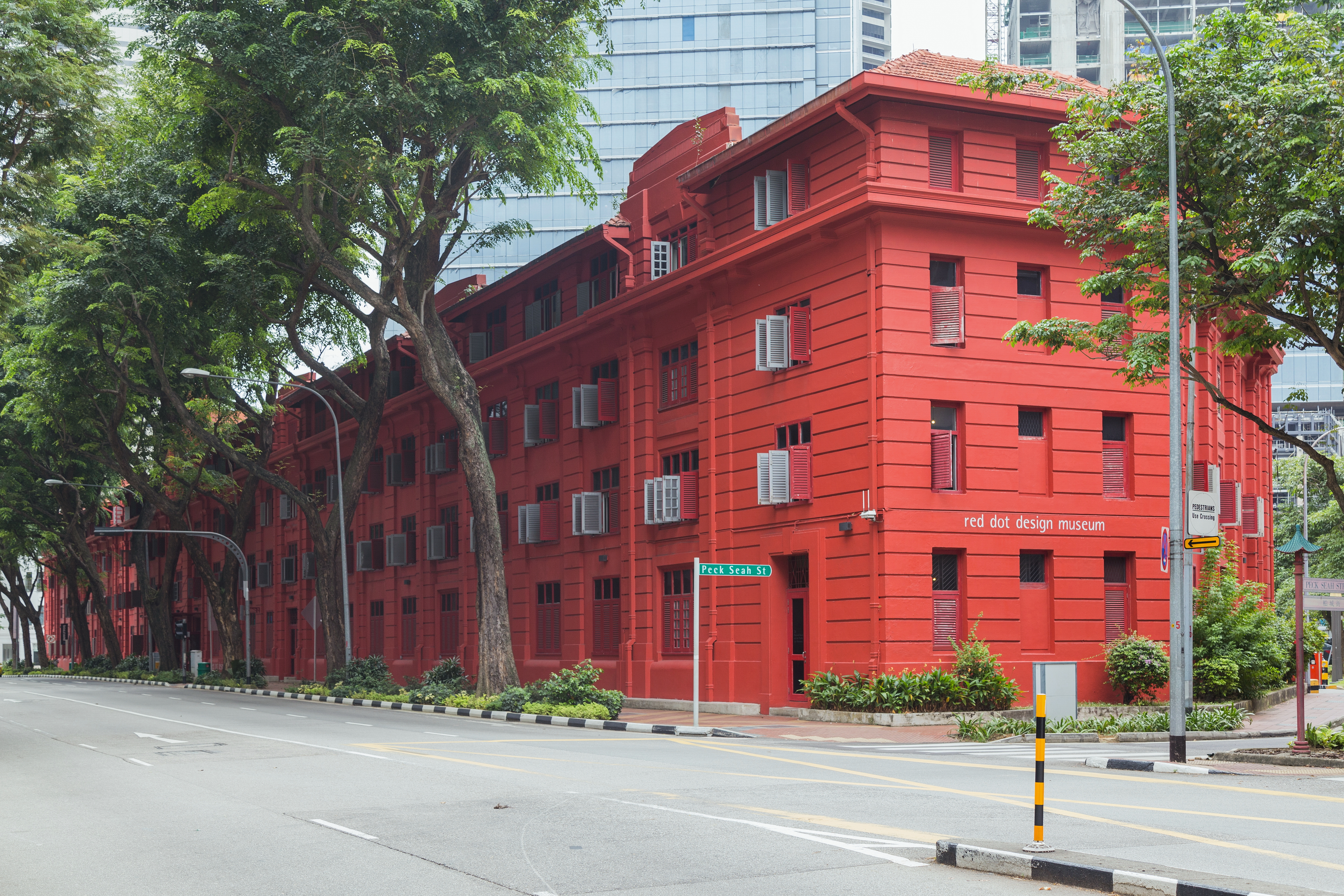 Red Dot Design Museum - formerly the headquarters of the Traffic Police Department. Maxwell Road. Chinatown, Central Region, Singapore.